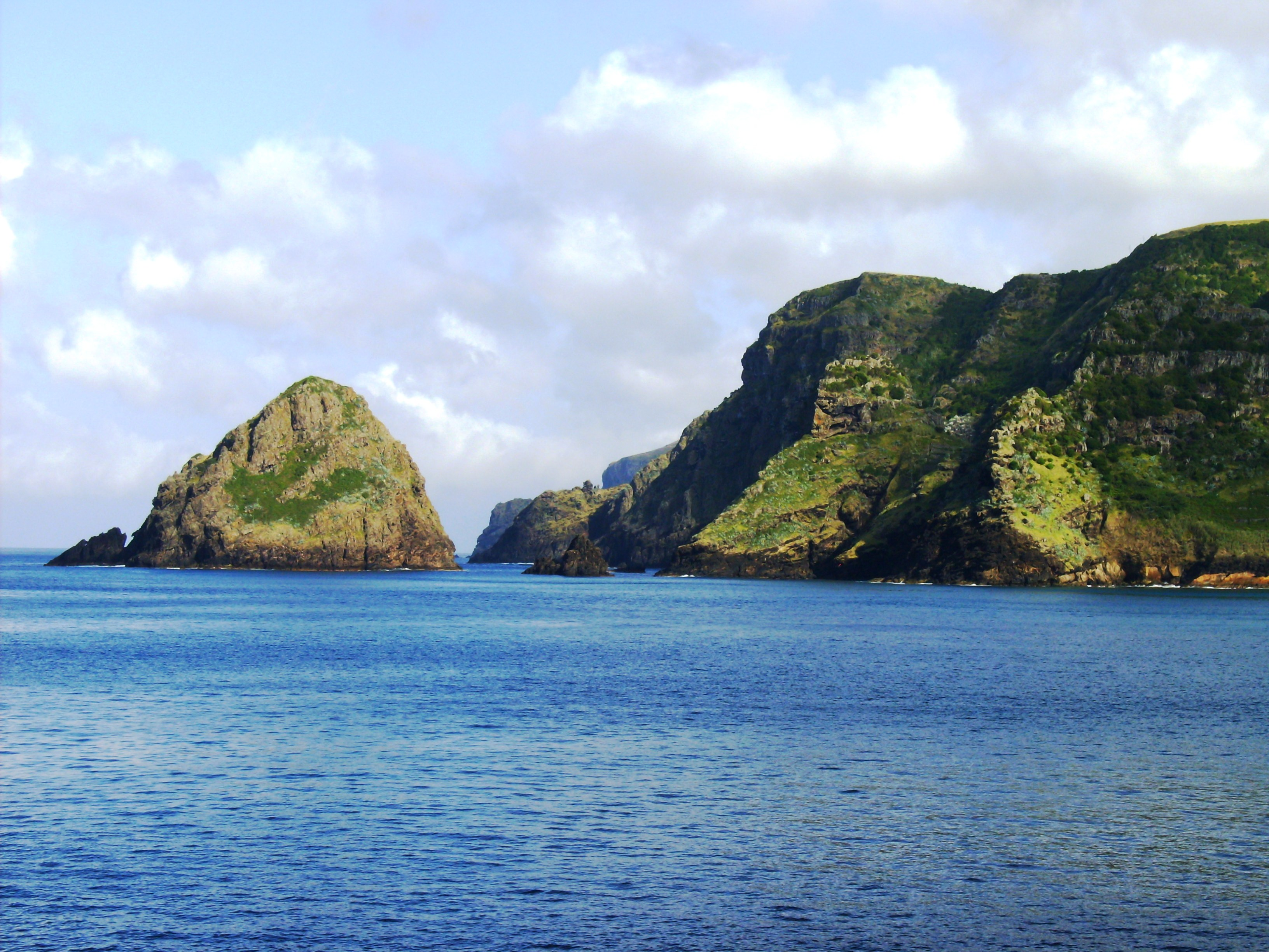 Islet of São Lourenço (also referred to as the Islet of the Romeiro), Bay of São Lourenço, island of Santa Maria (Azores), Portugal